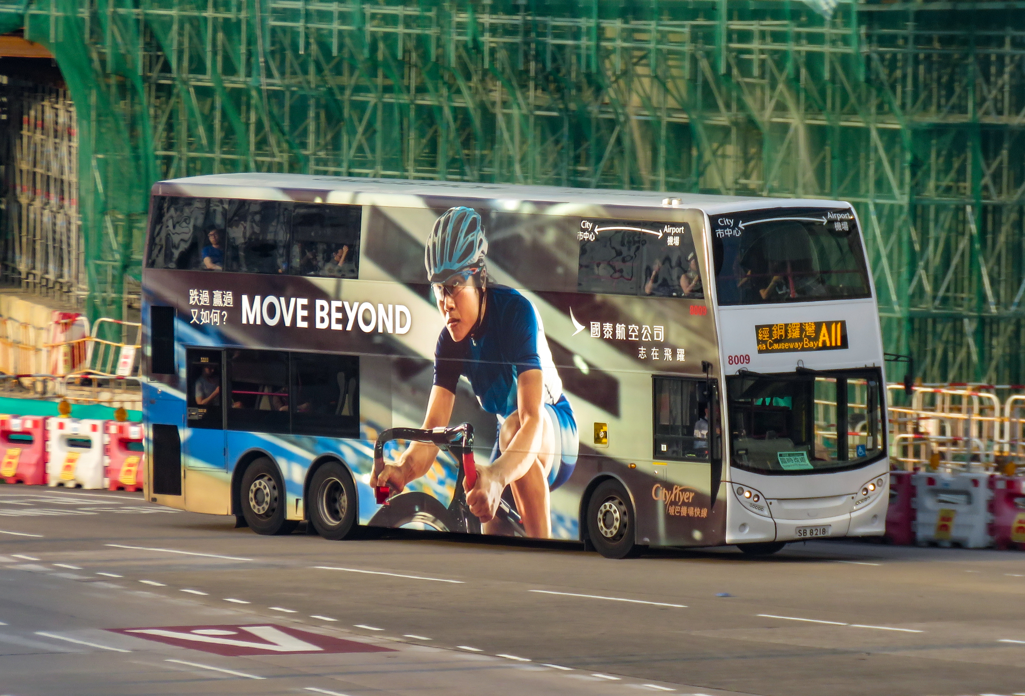 With Cathay's new slogan "Move Beyond".